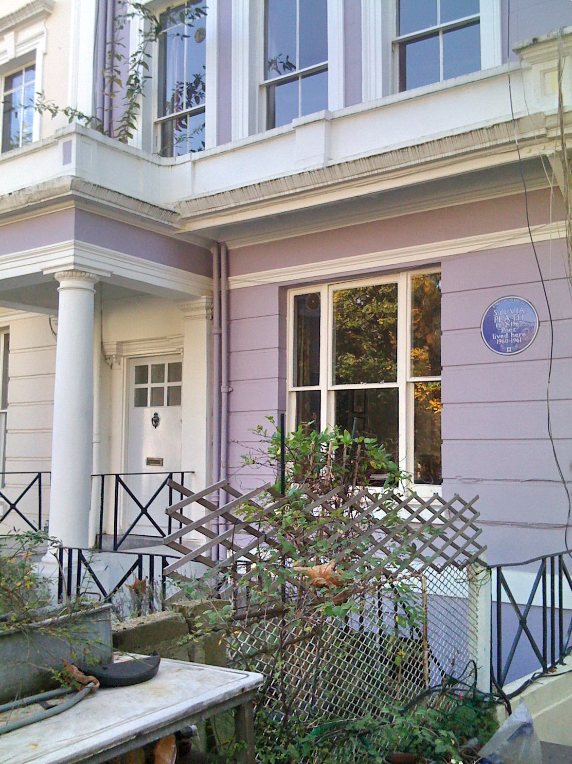 Home of Sylvia Plath